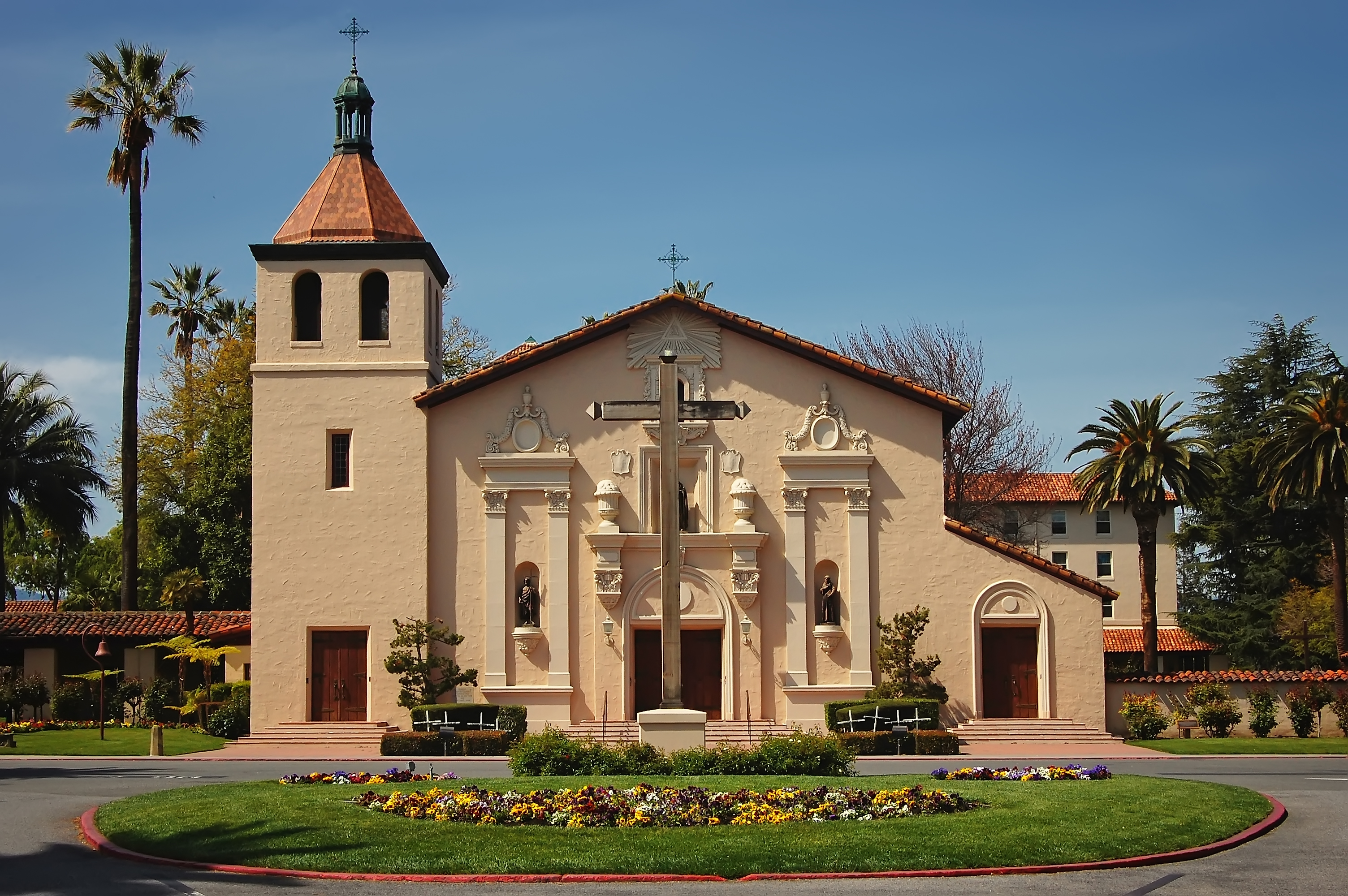 Mission Santa Clara de Asís (est. 1777) — in Santa Clara, California, U.S.